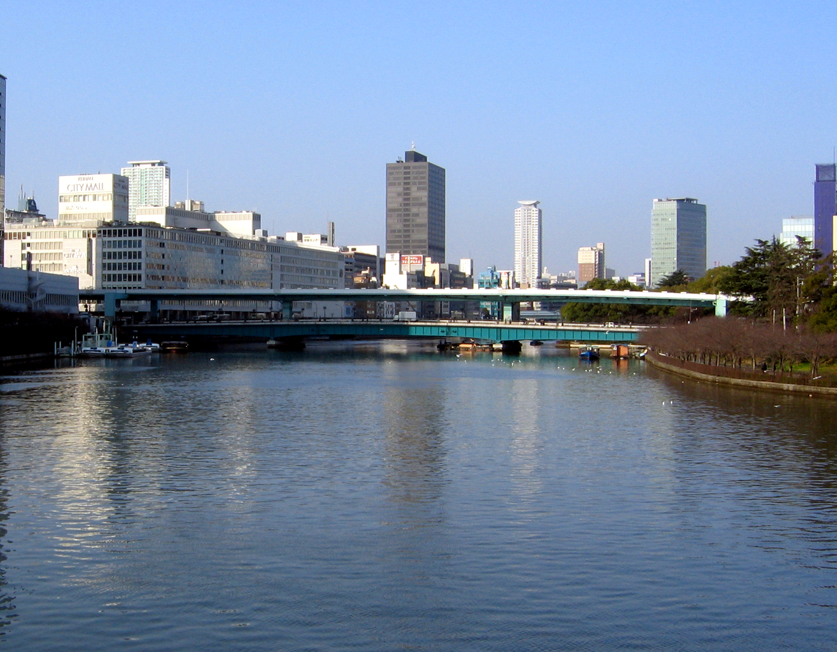 This is "Tennmabashi". 天満橋